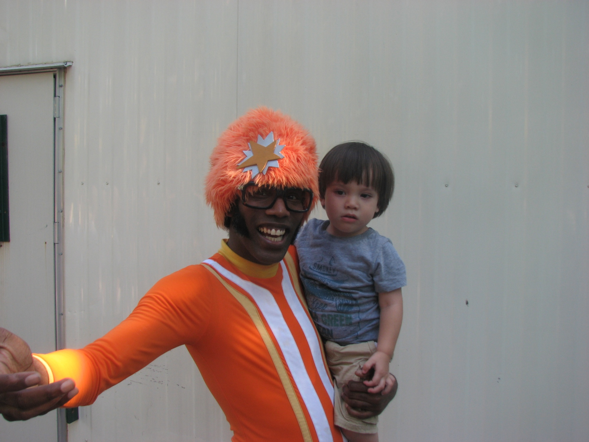 Lance Robertson (aka DJ Anthoney Goulbourne from Yo Gabba Gabba!) posing for a photograph with a young fan